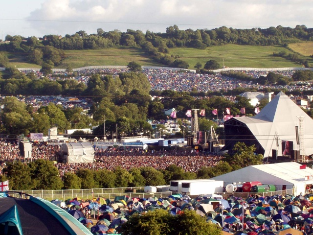 Glasto Pyramid stage and site from 2003.